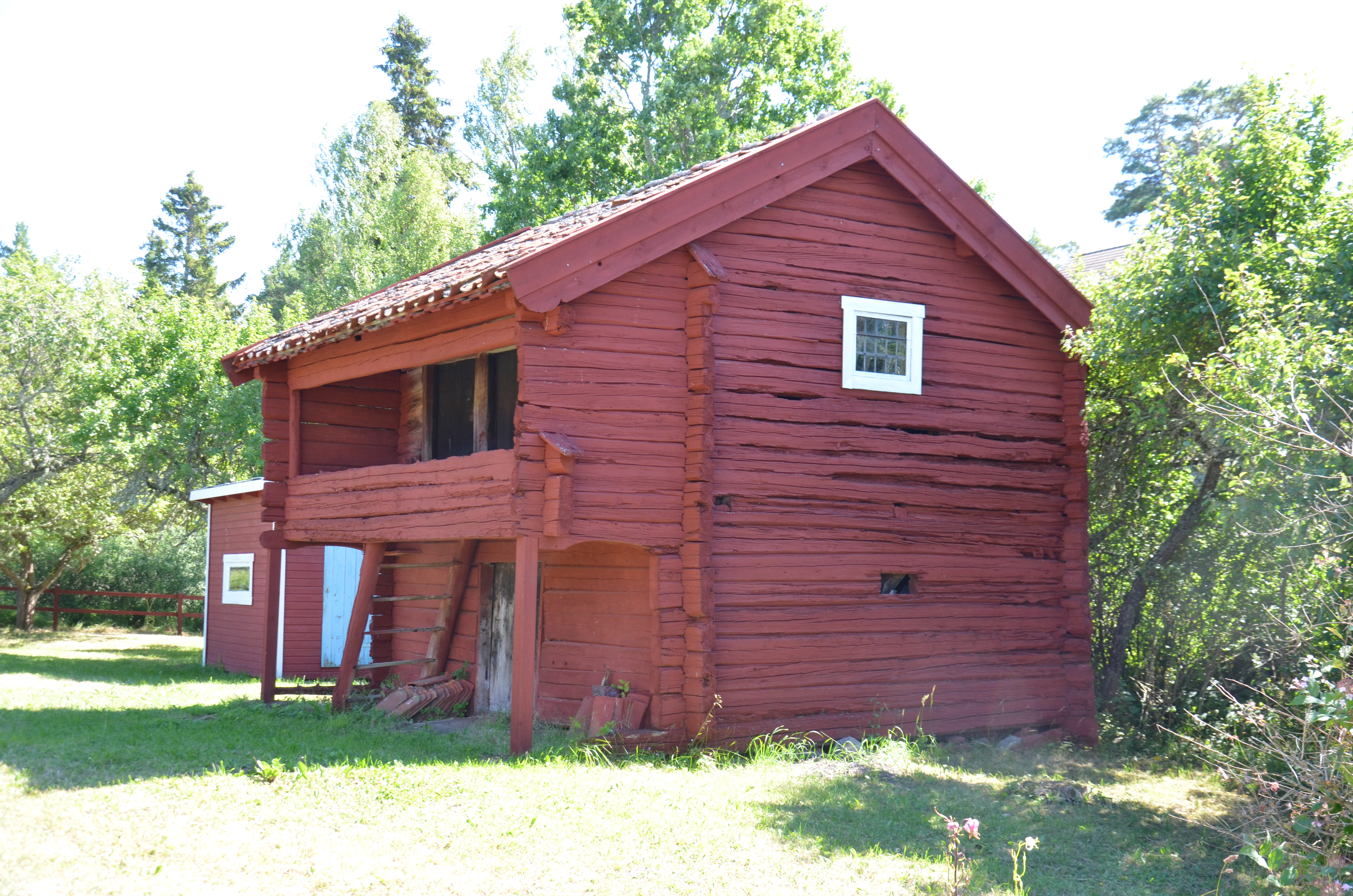 Ämtevik 1:27 Ekenstugan, loftbod från 1775, Sankt Anna socken, Söderköpings kommun, Sverige